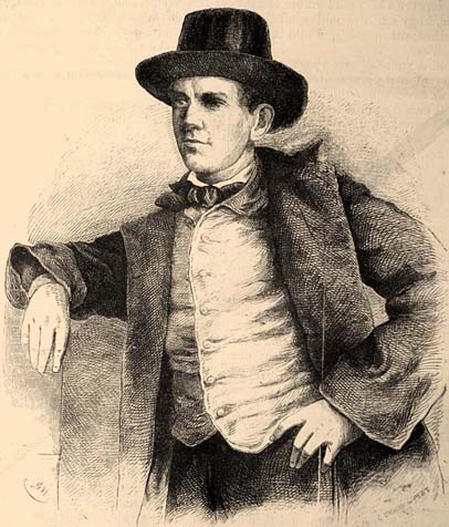 Ede Reményi